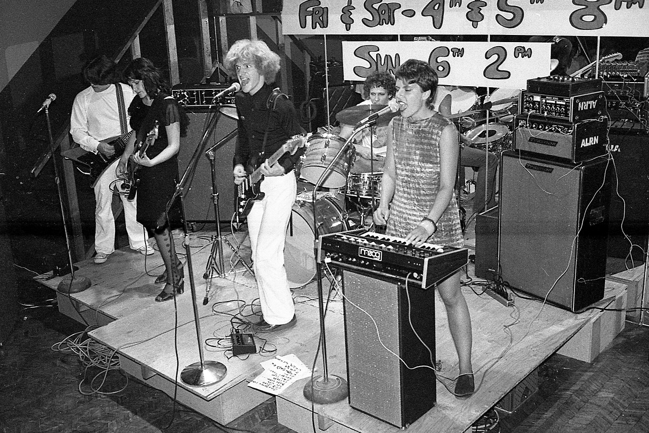 Alternate Learning, Scott Miller’s band, performing in Davis, California, in 1980. Left to right: Scott Gallawa, Carolyn O'Rourke, Scott Miller, Jozef Becker, Lynn Ross.